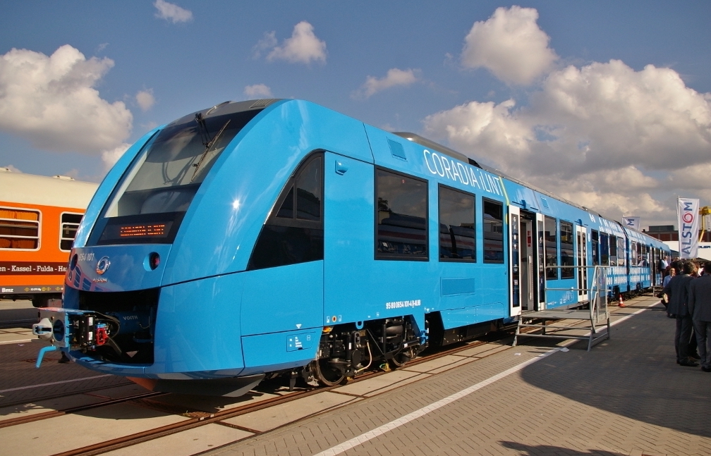 InnoTrans 2016 in Berlin: Der Coradia iLint von Alstom ist der erste Regionaltriebzug der mit Wasserstoff-Brennstoffzellen angetrieben wird. Die Brennstoffzellen sind auf dem Dach montiert. Die Basis für den Zug liefert die bekannte Lint-Familie von Alstom, so das einer Zulassung durch das EBA im Grunde nichts entgegenspricht. Den ersten Einsatz soll der Zug auf der Strecke Buxtehude - Bremervörde - Bremerhaven - Cuxhaven haben und gleichzeitig als Prestigeprojekt dienen. Die Reichweite des iLint liegt mit einer Ladung bei 800 Kilometern und erreicht eine Höchstgeschwindigkeit von 140 km/h. Da Wasserstoff bei jedem Betrieb der chemischen Industrie anfällt, könnte so ein dichtes Netz an Tankstellen entstehen.